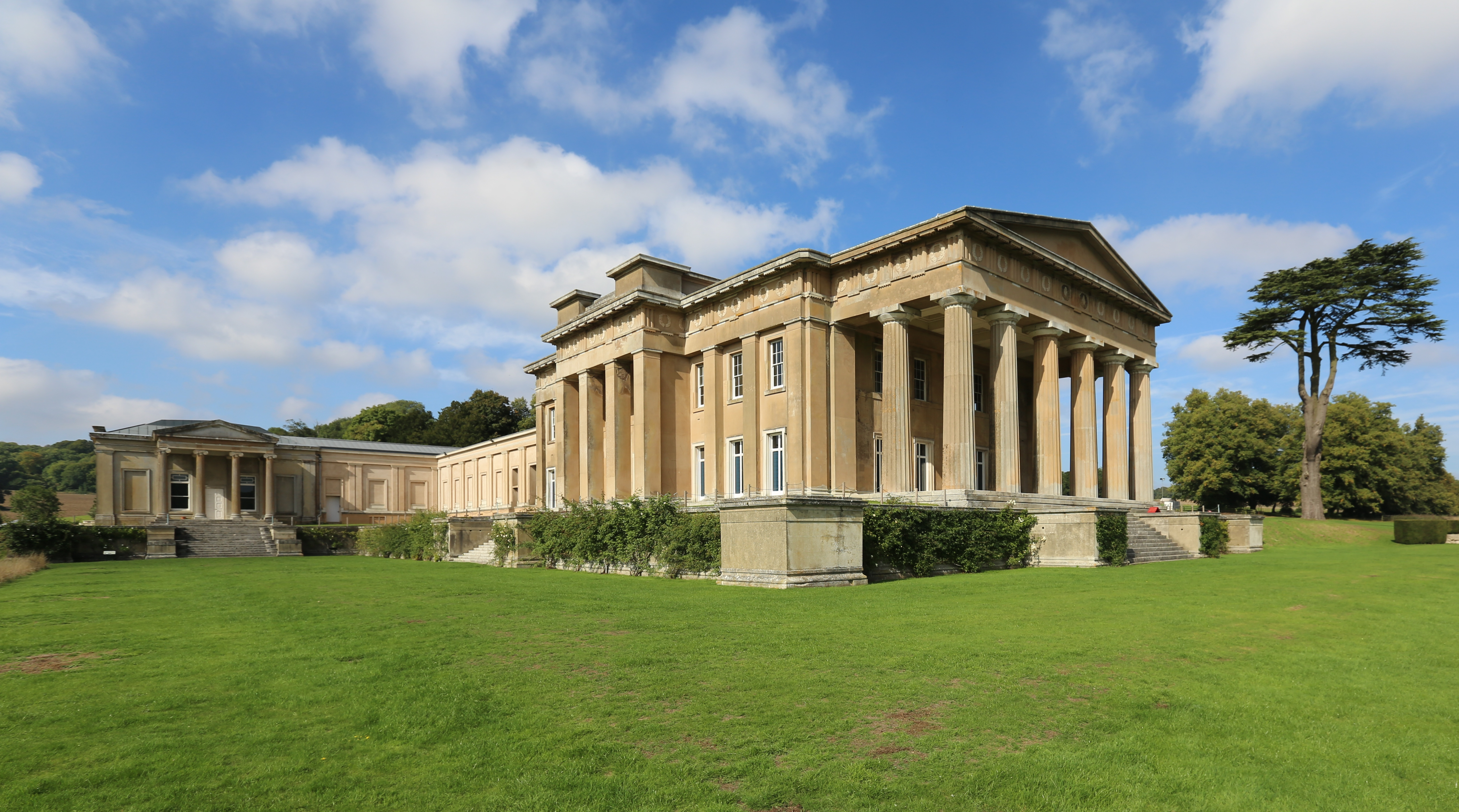 The Grange